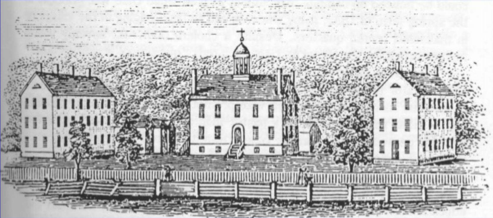 Oneida Institute, Whitestown, New York. Only one building, converted into a factory, remains. Original source is Historical Collections of the State of New York, New York, 1841.